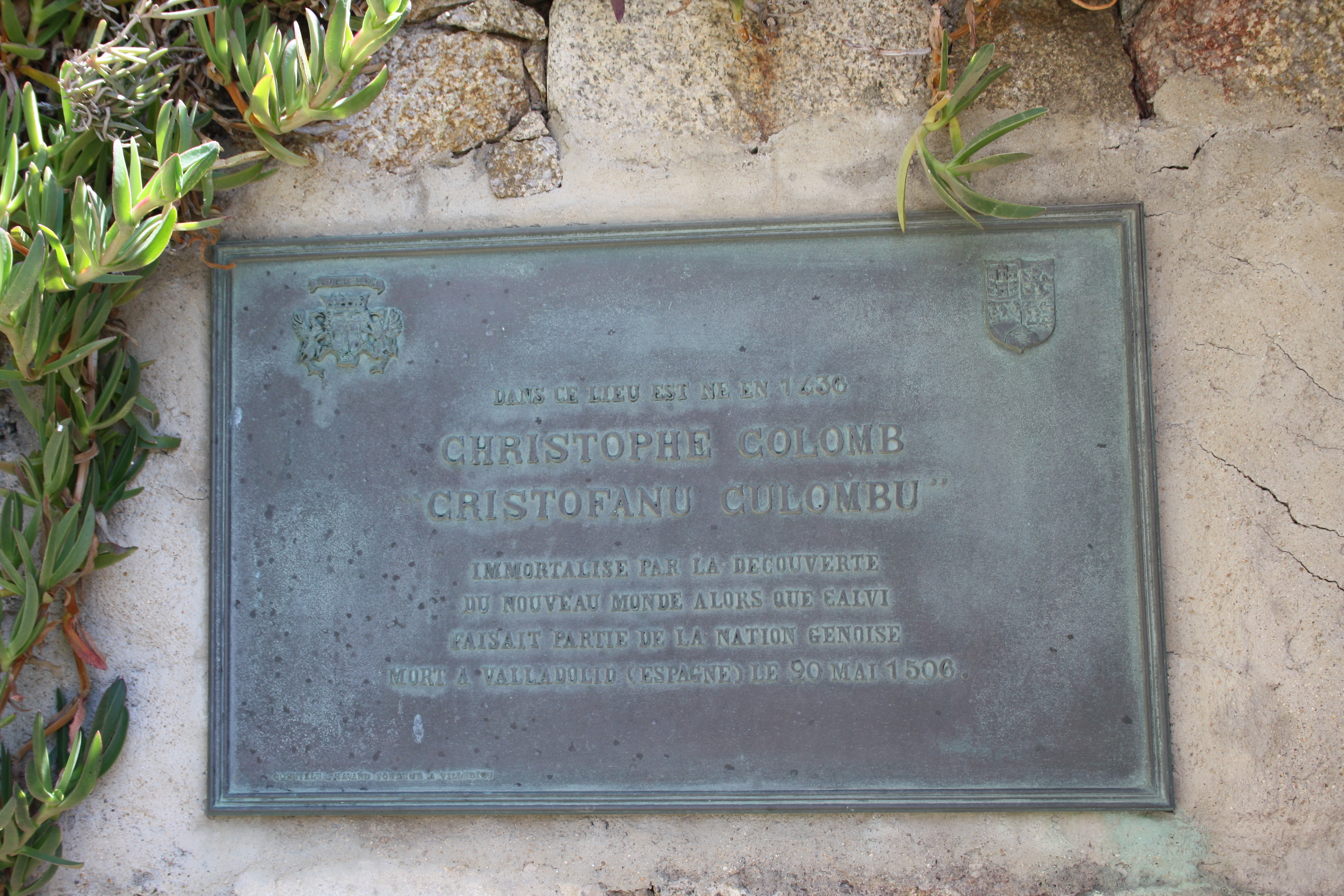 Plaque commemorating the birthplace of Christopher Columbus (Calvi, Haute-Corse)